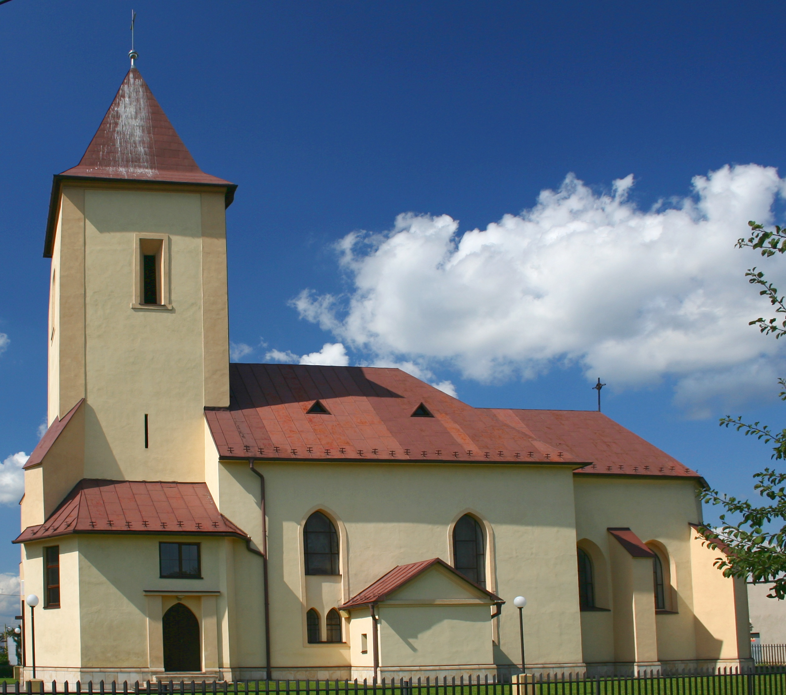 church in Soľ village in Slovakia